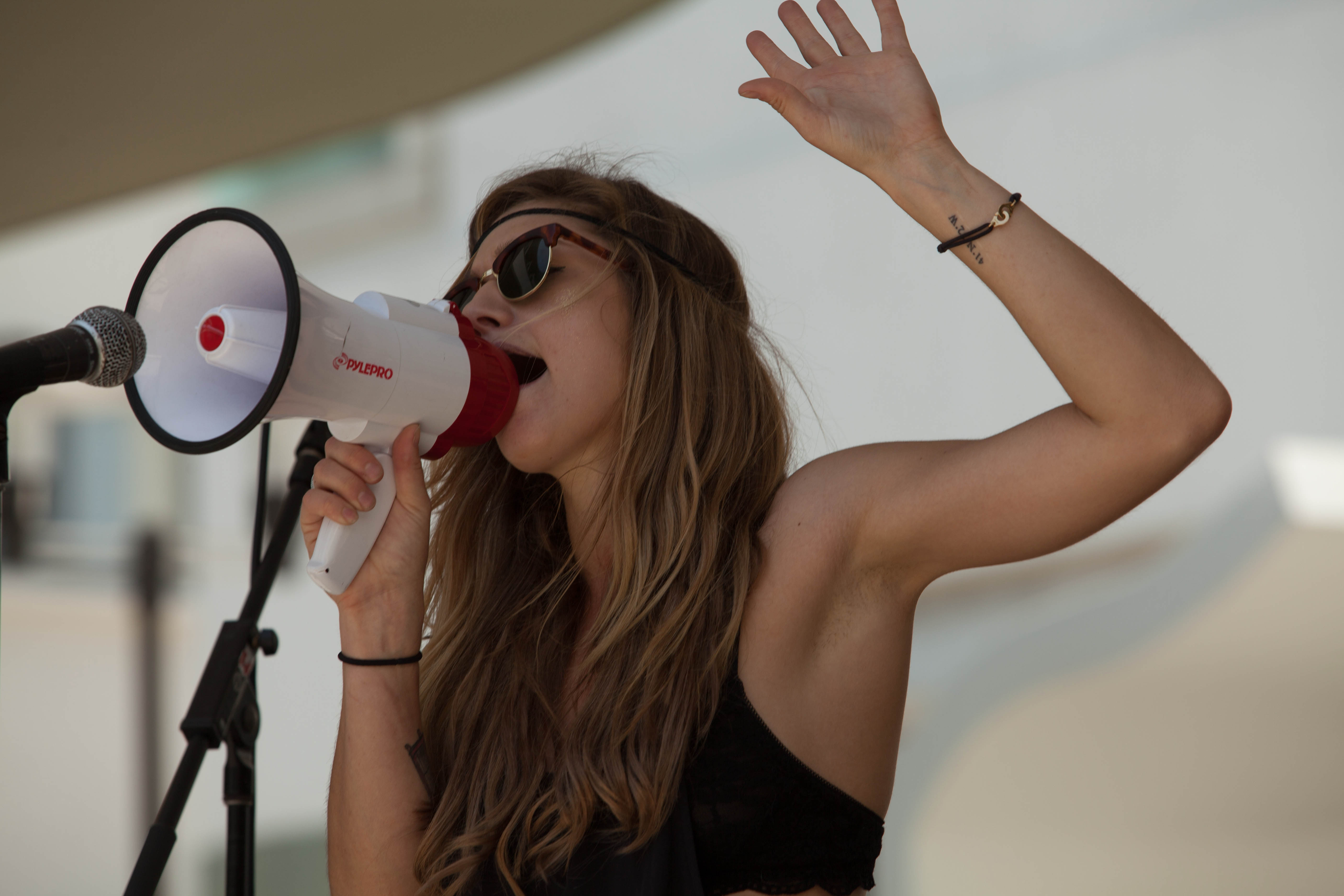 Alternatick/electronic rock band, Tempest performing at 2012 Make Music Pasadena